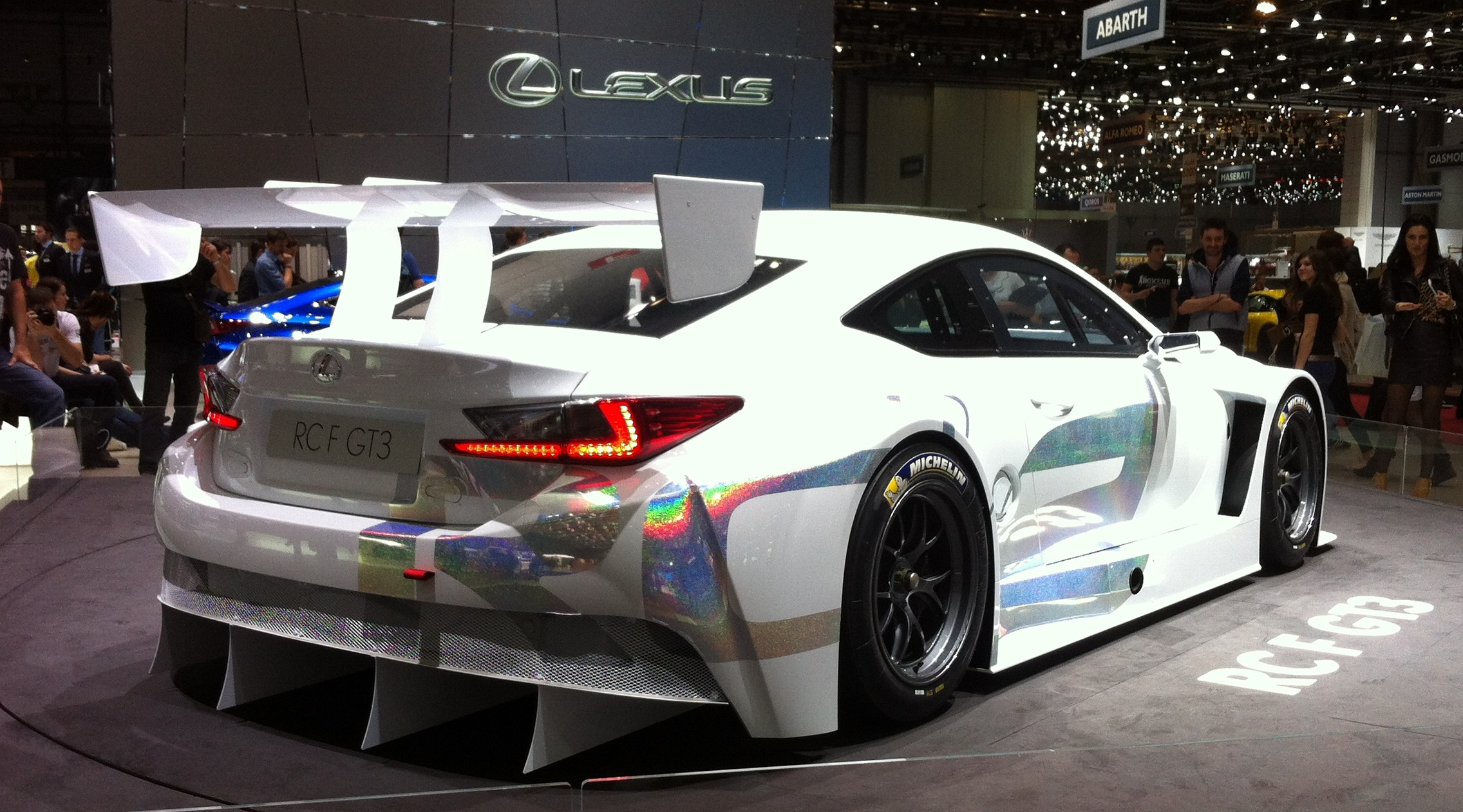 Lexus RC F GT3 at geneva Motor Show 2014